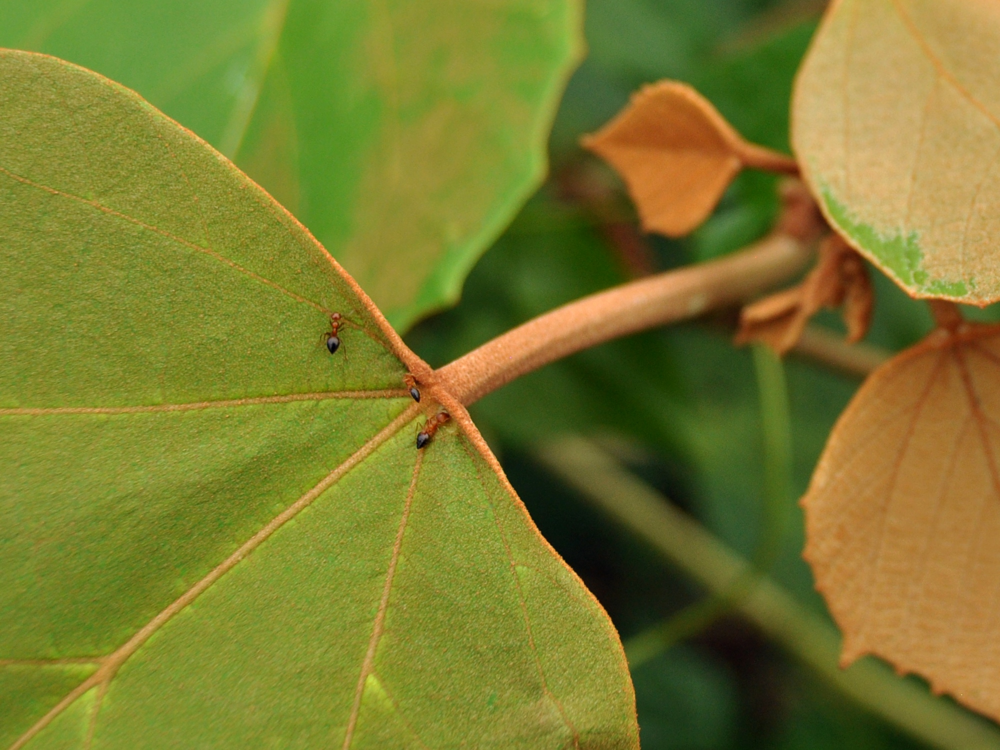 Mallotus macrostachyus; close up of nectaries (with ants) at the leaf base. From Rokan Hilir, Riau, Indonesia.